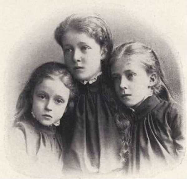 3 Bavarian sisters: Princess Gabrielle (future Crown Princess of Bavaria), Princess Sophie (later Countess zu Törring-Jettenbach) and Princess Elisabeth (future Queen of Belgium)